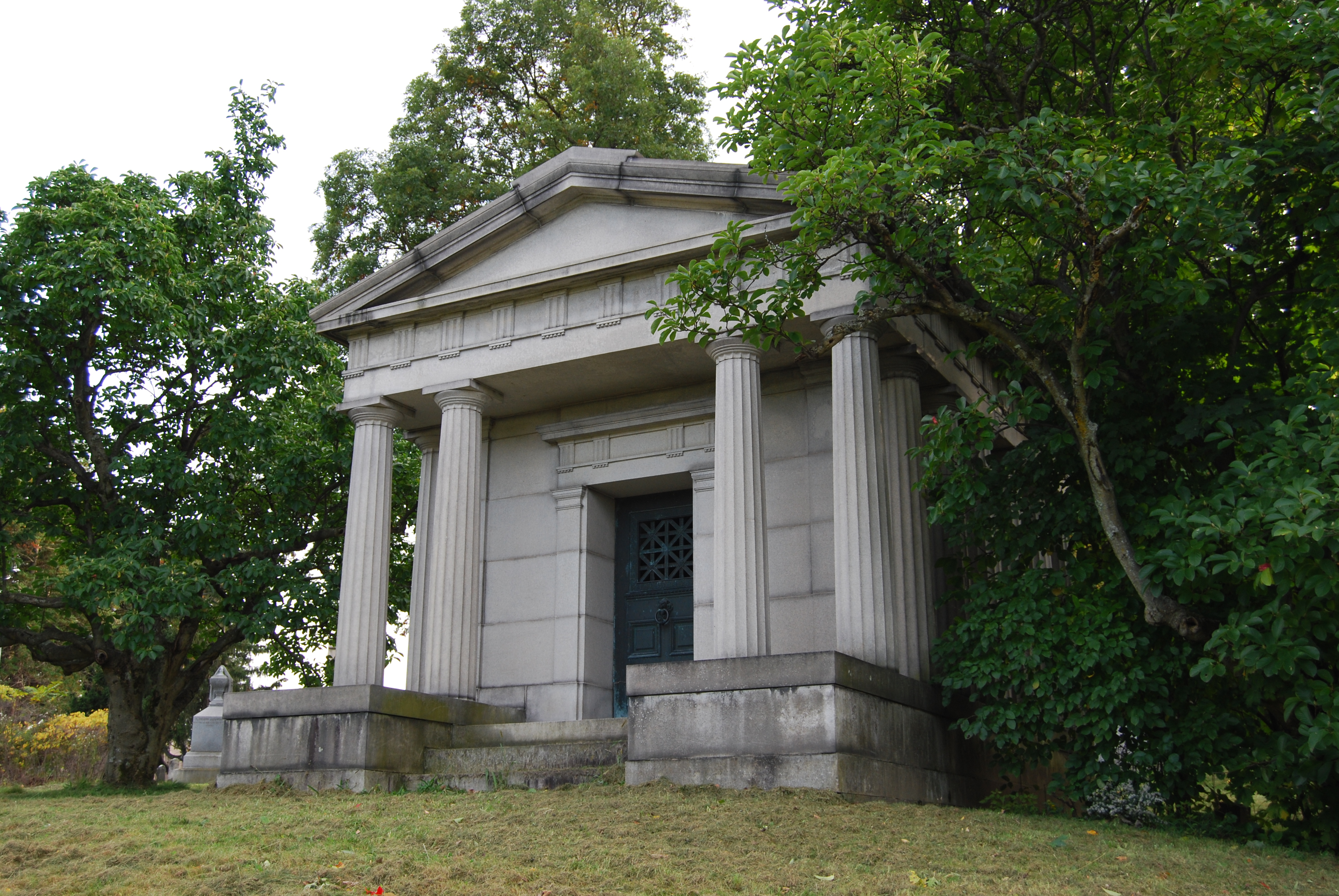 Mausoleum of Russell Sage at Oakwood Cemetery in Troy, New York, United States. He is buried here alone; his wife, Margaret Olivia Slocum Sage, is buried with her parents in Syracuse. Mrs. Sage intentionally left the mausoleum unnamed (i.e. note the lack of the name Sage).